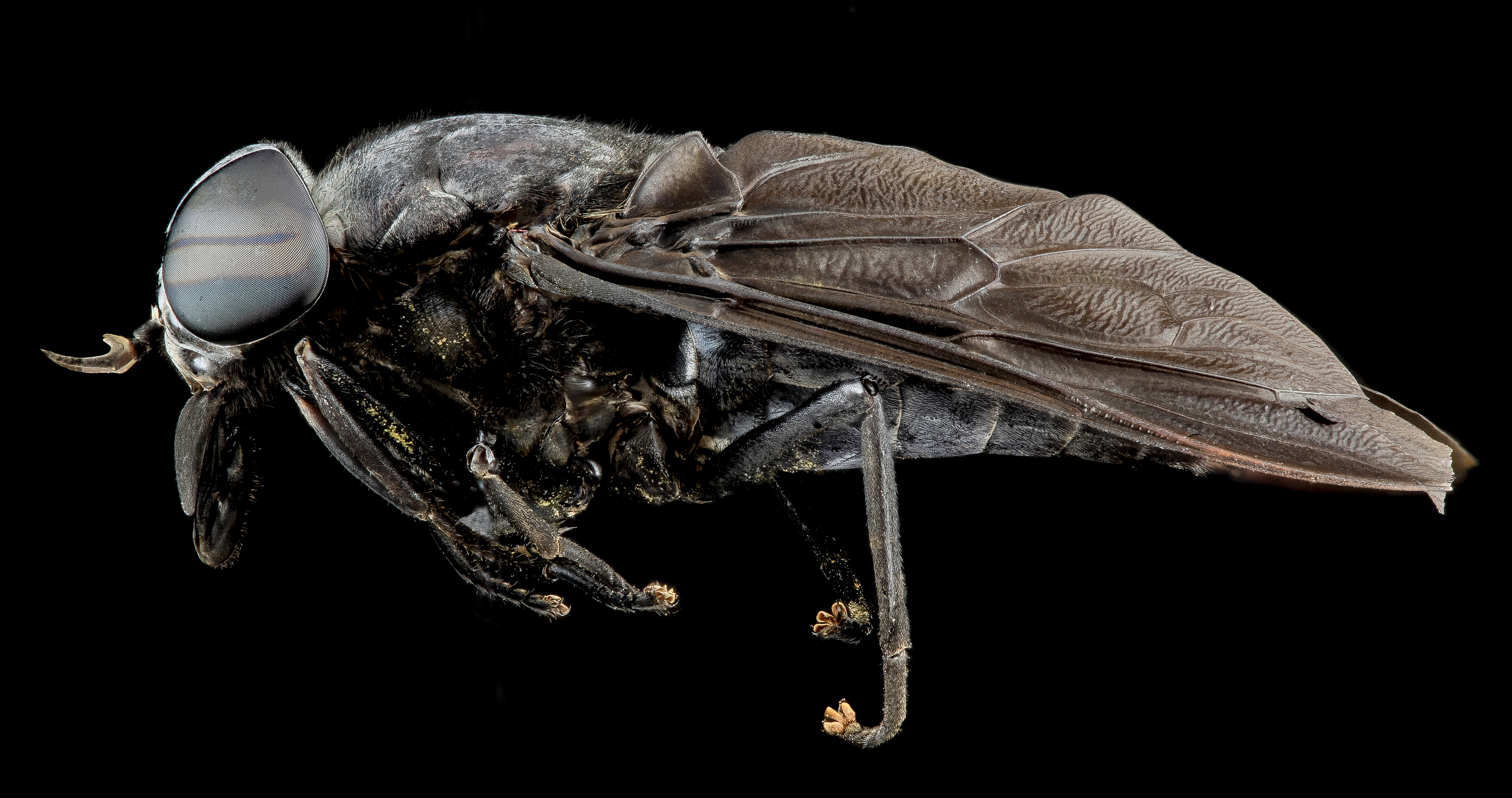 Black Horse Fly, Tabanus atratus, Upper Marlboro, Maryland Canon Mark II 5D, Zerene Stacker, Photographer: Dejen Mengis